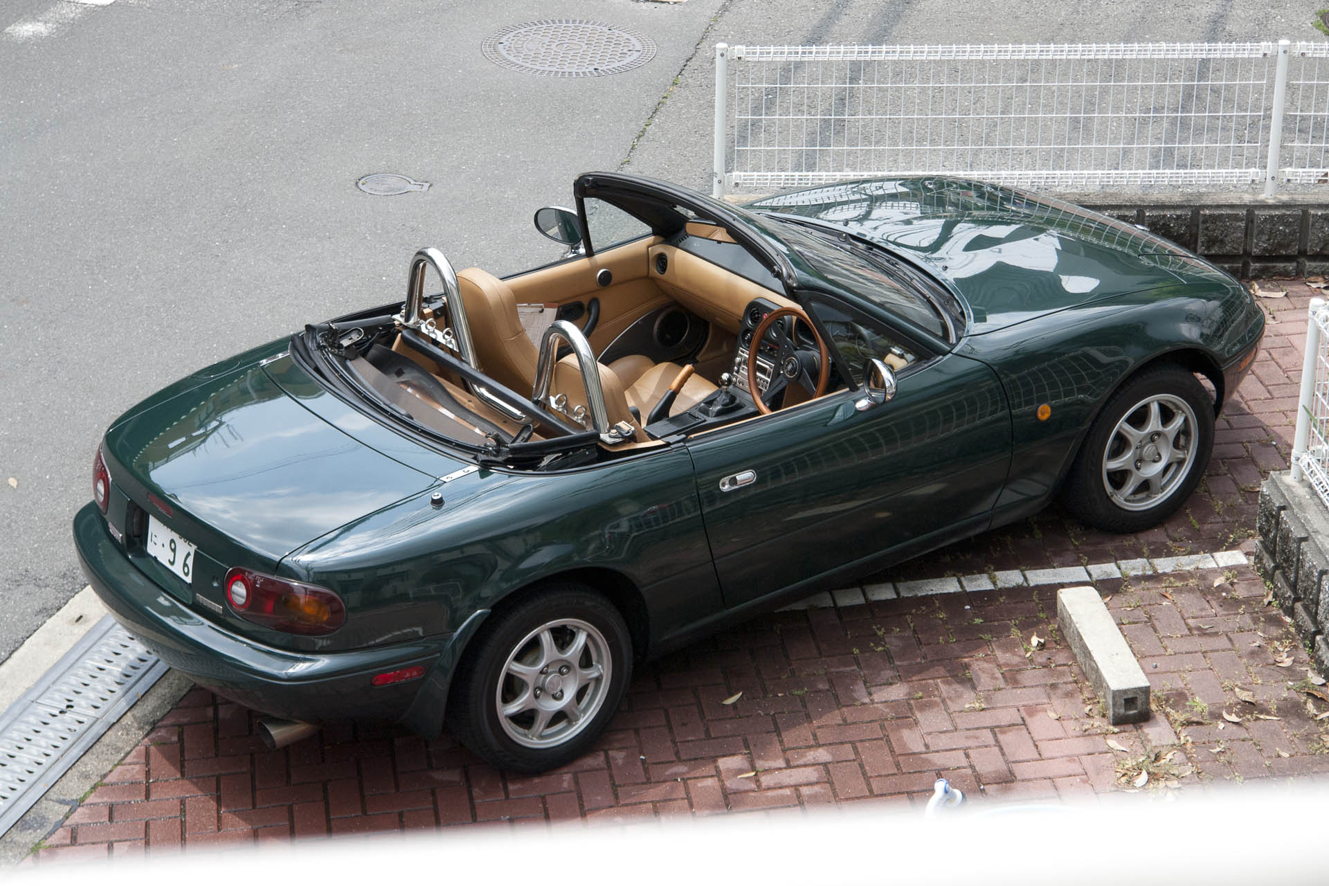 This is my lovely roadster.